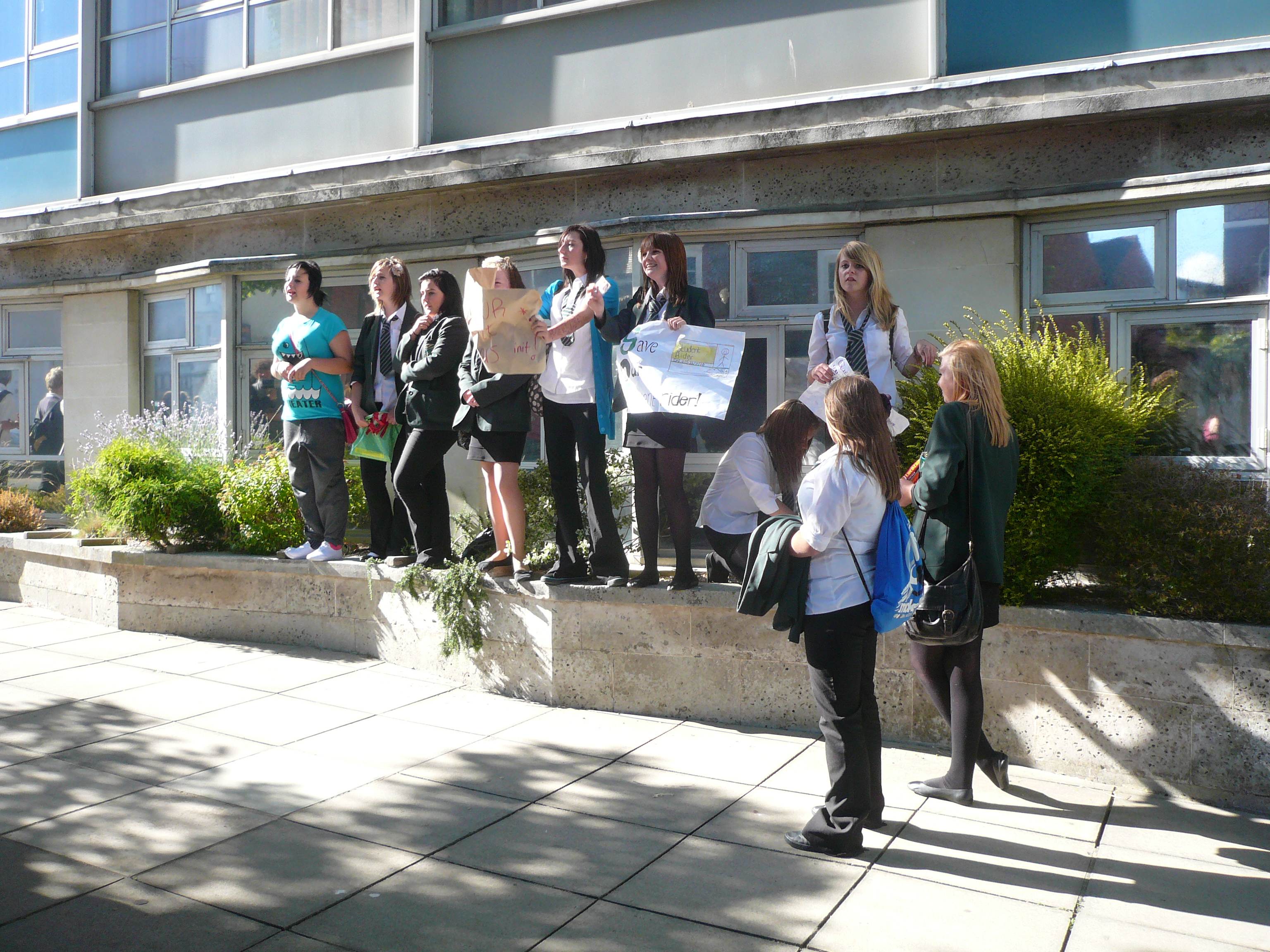 Students demonstrating outside County Hall in Newport, Isle of Wight just before the "Student Rider" enabling students to travel anywhere on the island for £1.20 was axed by the Isle of Wight Council.